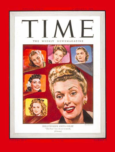 Time magazine, Volume 45 Issue 2. Front cover is an illustration of Anita Colby. Smaller images (clockwise from lower left) are illustrations of Shirley Temple, Jennifer Jones, Ingrid Bergman, Joan Fontaine and Dorothy McGuire, actresses advised by Colby in her capacity as "feminine director" of Selznick International Pictures.